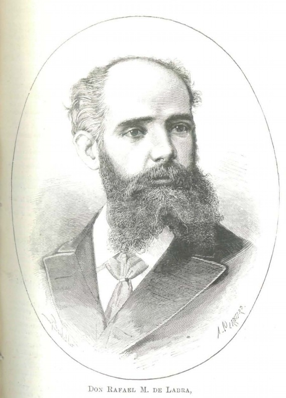 Rafael M .de Labra, diputado a Cortes por la isla de Cuba